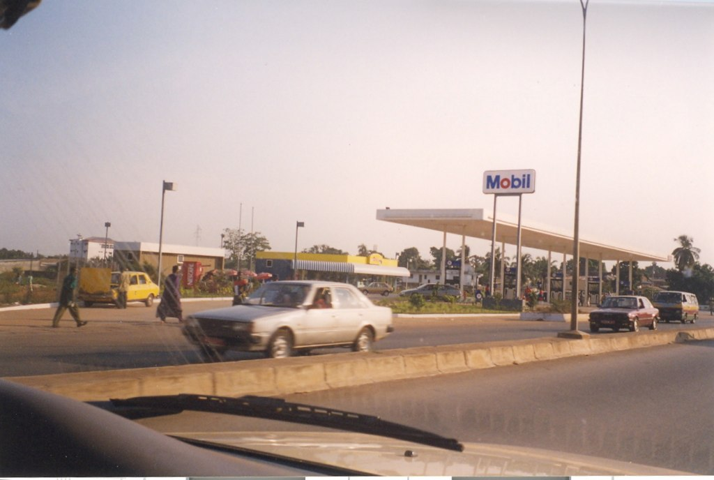 Mobile Station in Coankry, but I think Mobile has moved out of Guinea as they have all throughout West Africa.